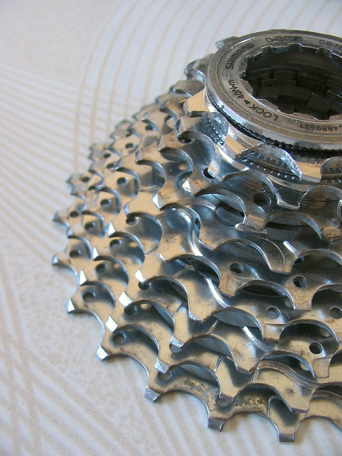 Shimano HG teeth on 105 cassette